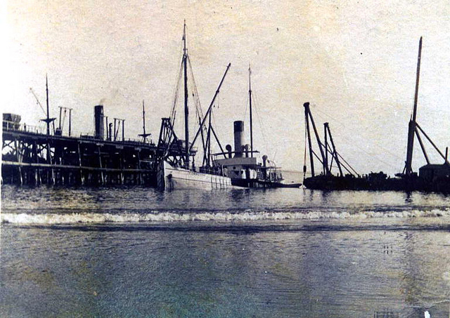 Steamship Comboyne sunk at Wollongong Harbour